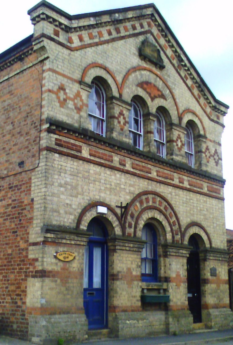 Primitive Methodist Chapel, Willoughton. Now converted into residential property. Photo by E Asterion u talking to me?